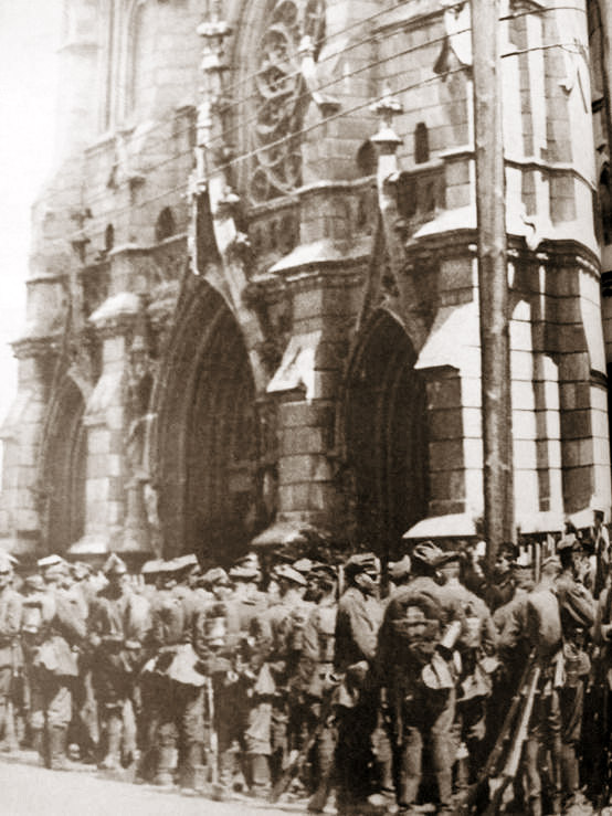 Polish infantry in Kiev during Polish-Soviet war, May 1920. Polish soldiers near St. Nicholas Roman Catholic Cathedral